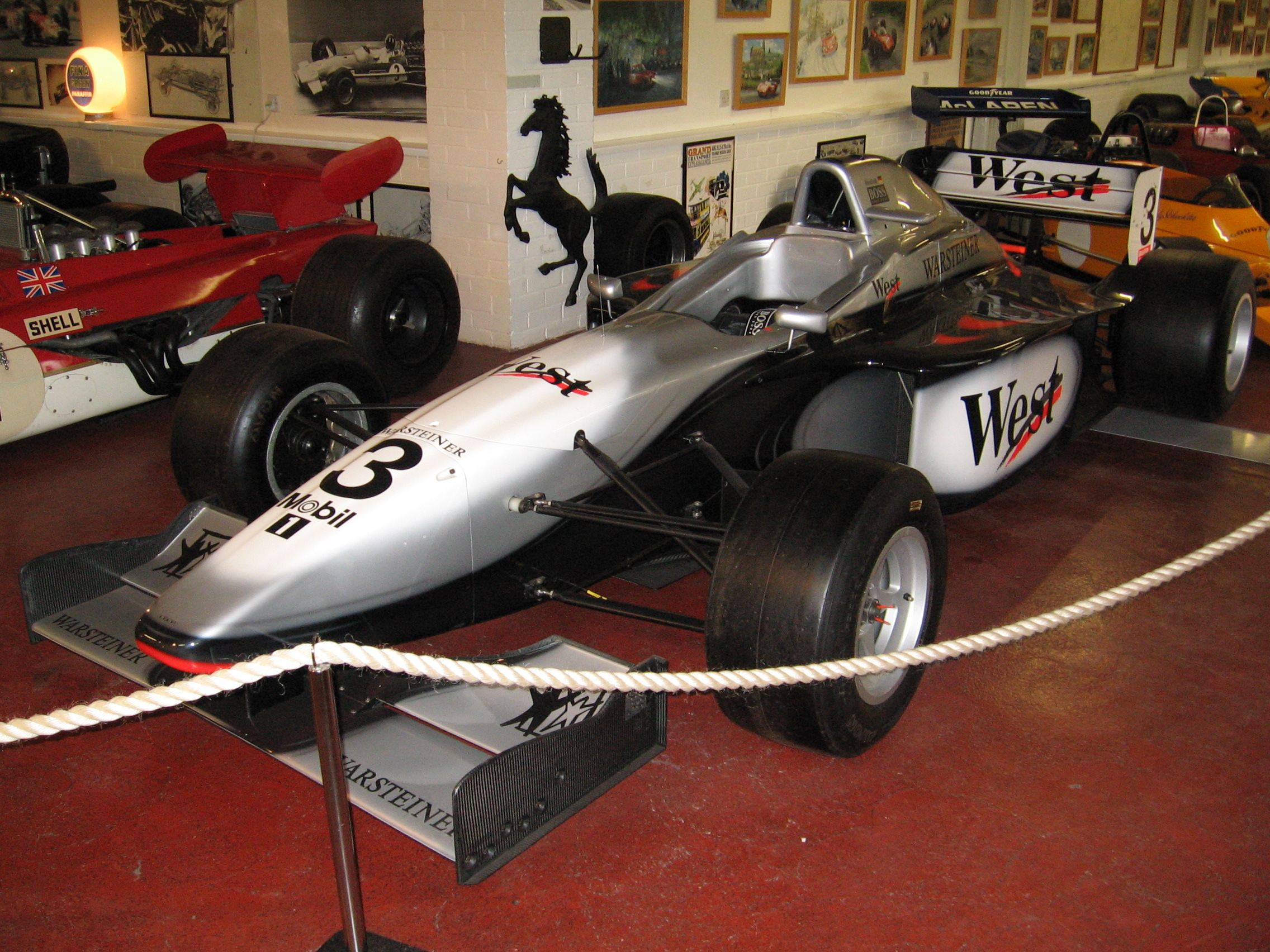 Nick Heidfeld's 1999 Lola F3000 (B99/50), "West" Racing